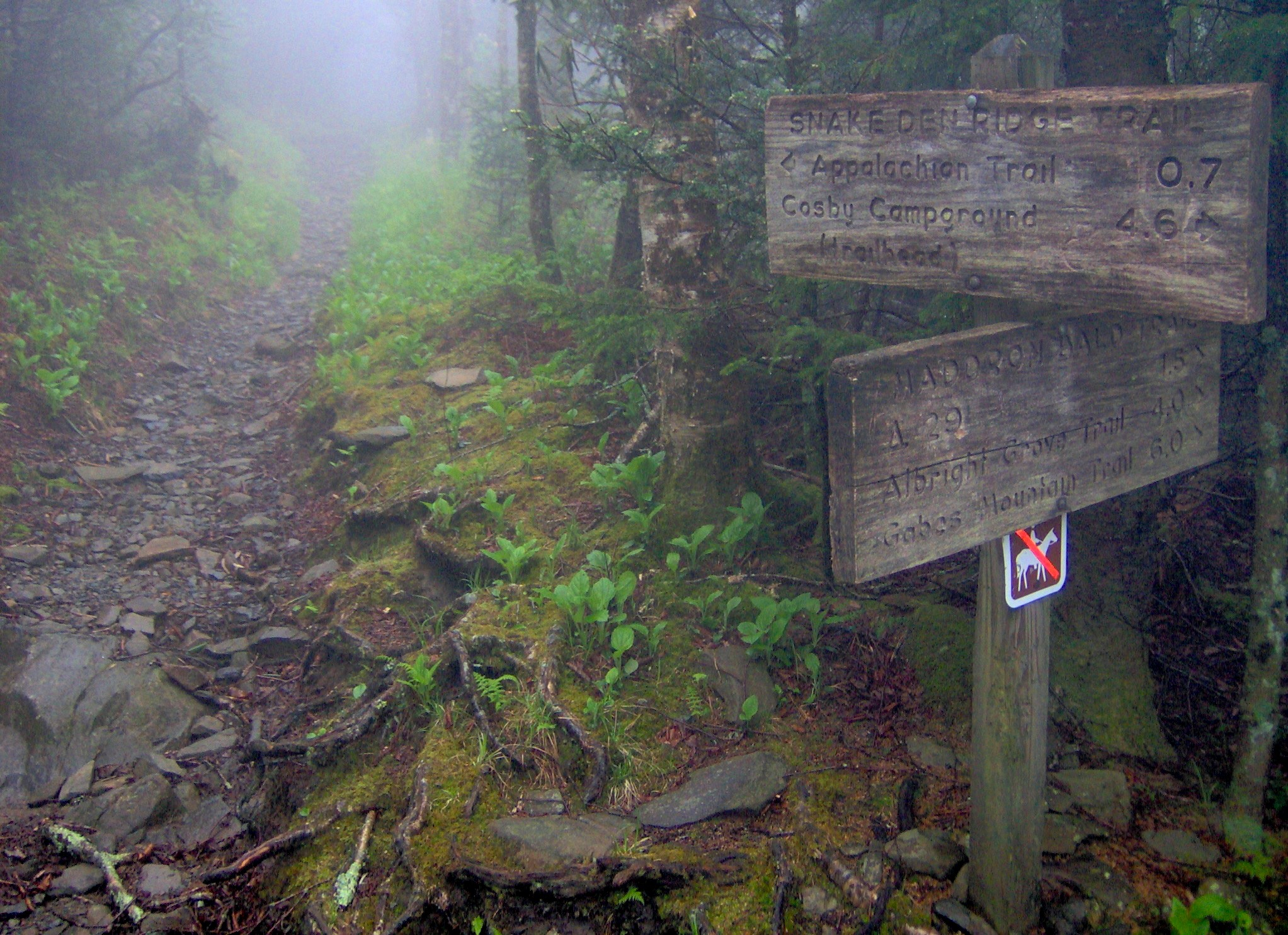 The junction of the Snake Den Ridge Trail and the Maddron Bald Trail in the Great Smoky Mountains National Park, in the southeastern United States.